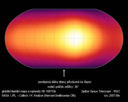 Temperature map of extrasolar HD 189733b planet